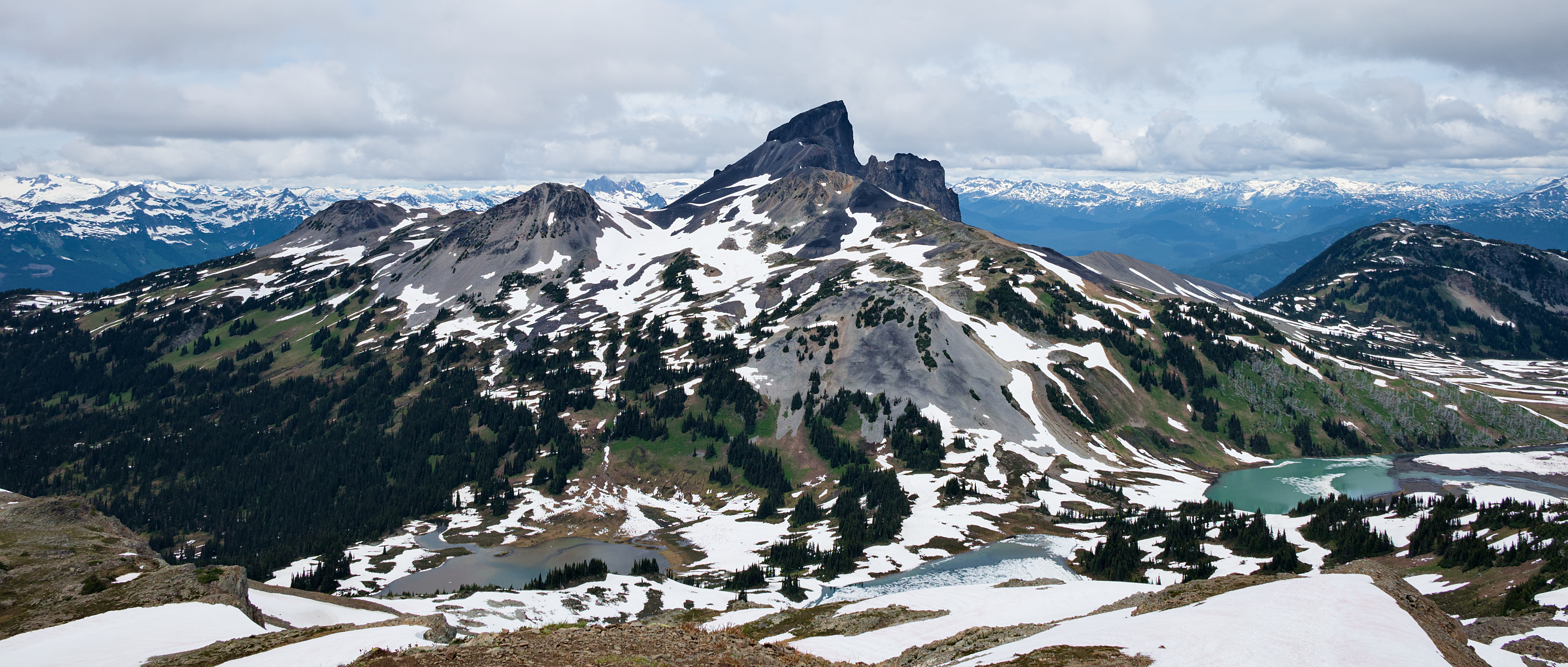 Black Tusk viewed from the Panorama Ridge Trail (SE). Garibaldi Provincial Park, BC